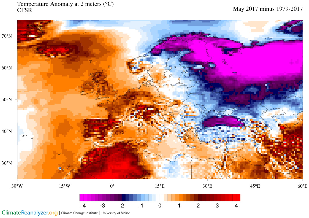 Temperature anomaly Europe, May 2017 (to mean 1979–2017), Reanalysis.